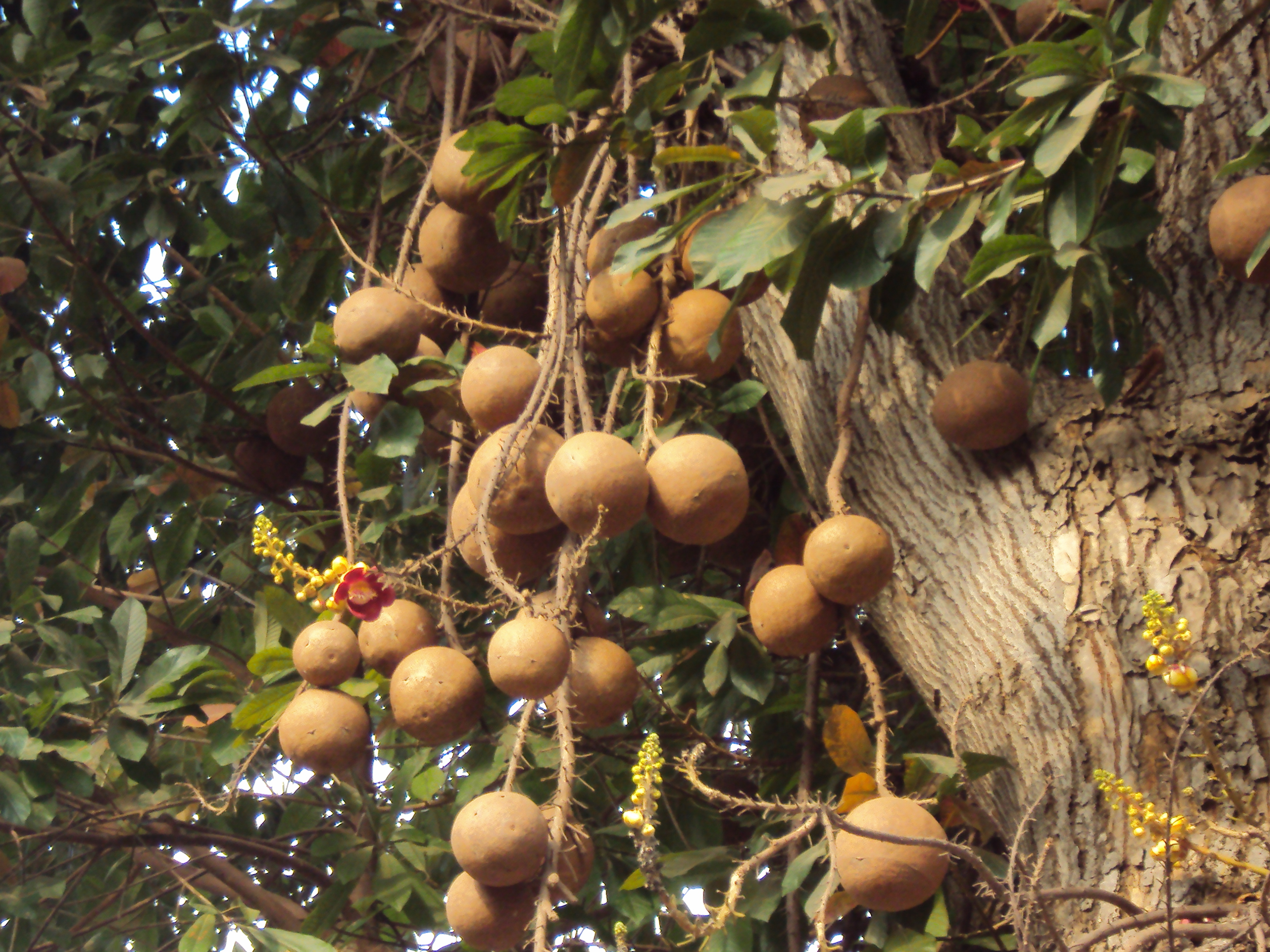 Ball-like fruits of Couroupita guianensis seen at Thirumullaivoyal